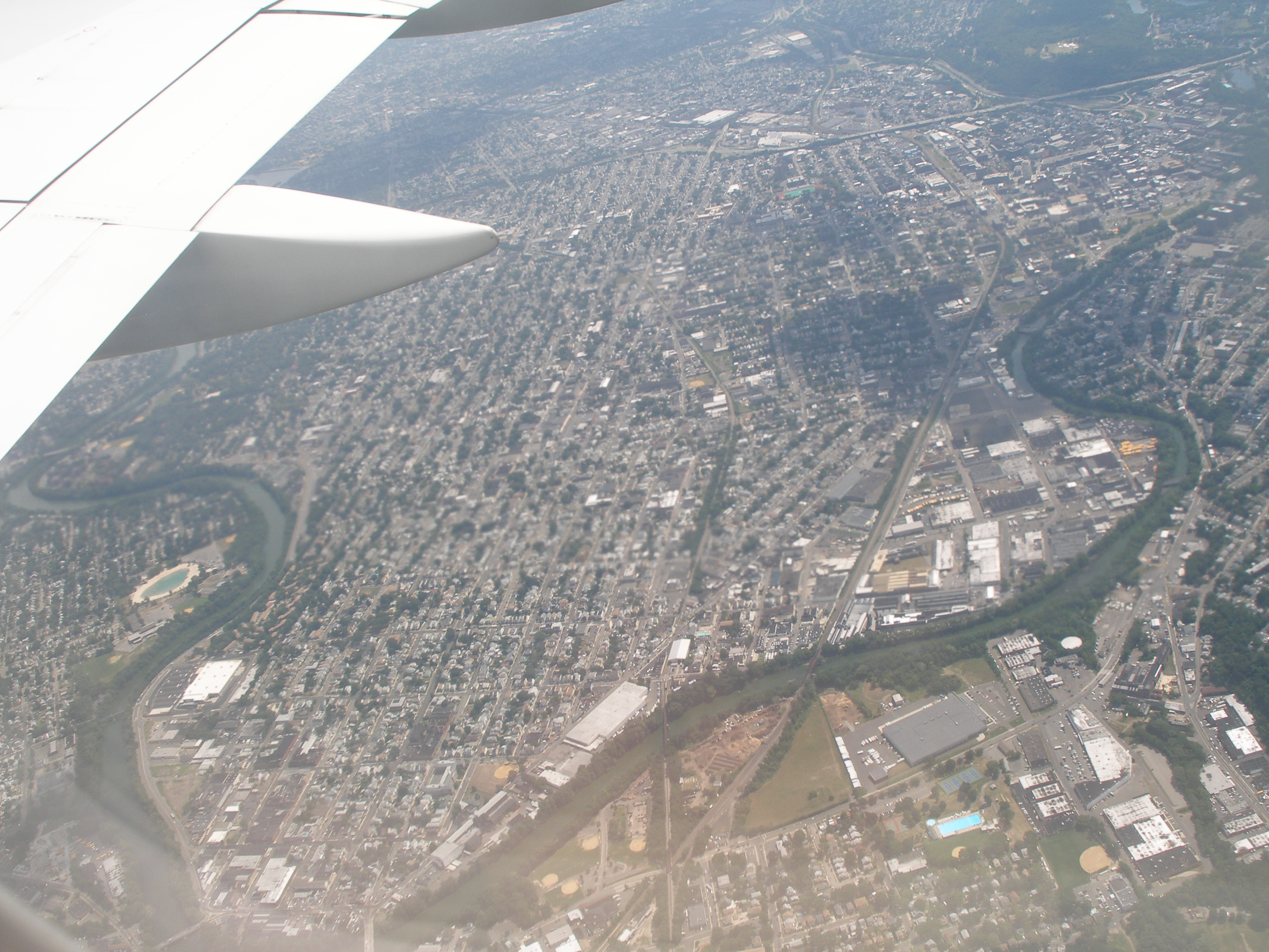 A view of Paterson, New Jersey, as seen from the airplane, looking south